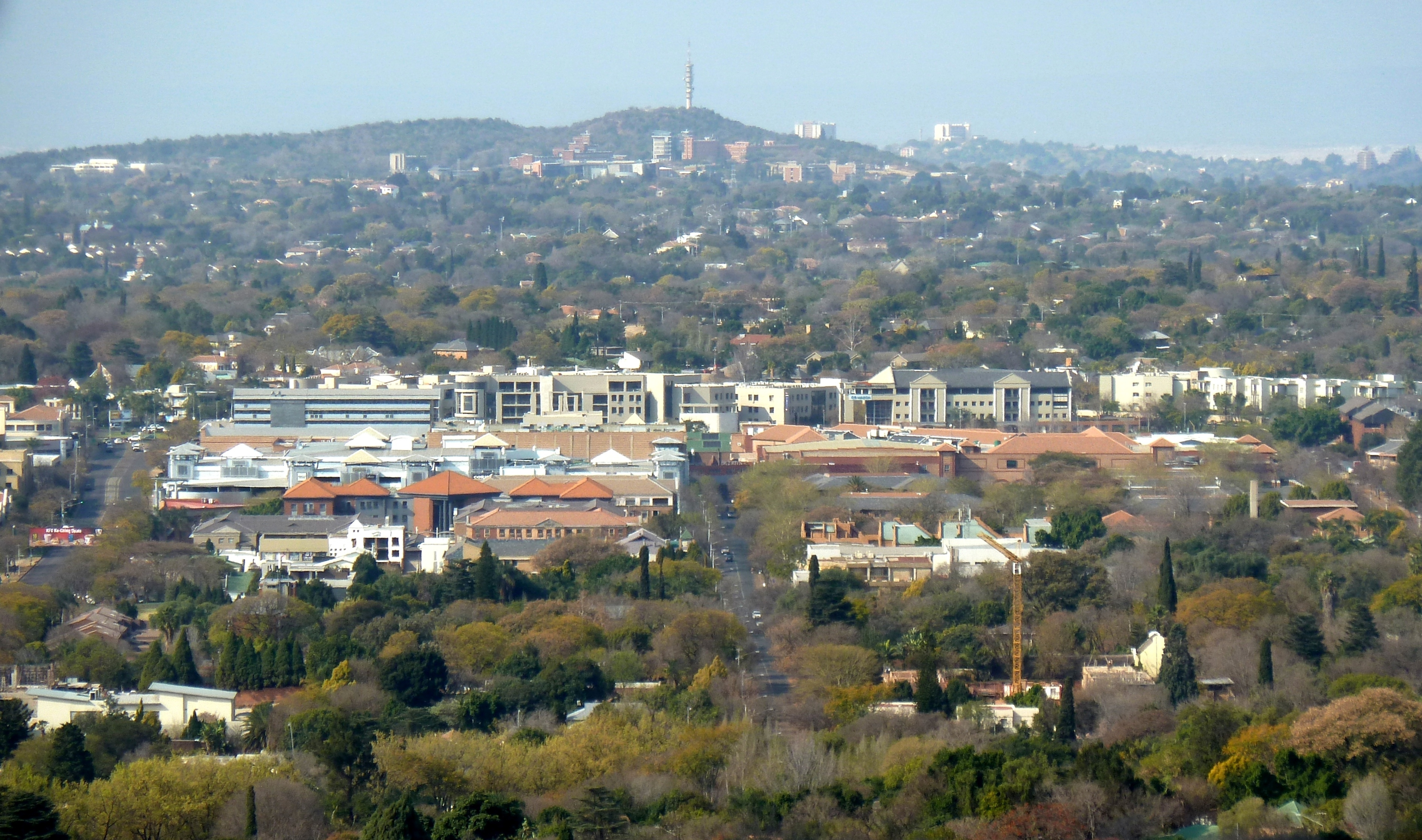 Nieuw Muckleneuk and Brooklyn suburbs of Pretoria, South Africa. Middel and Bronkhorst streets are visible.